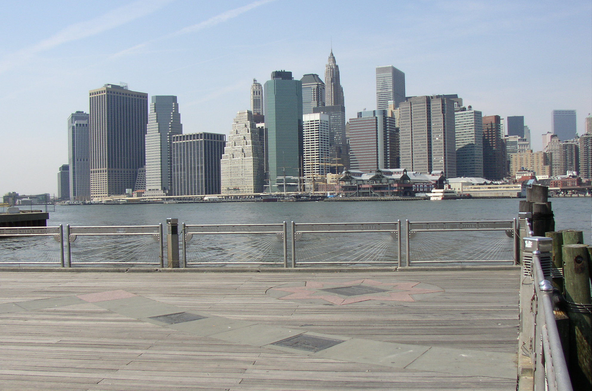 Fulton Ferry Pier, East River and Manhattan in the background